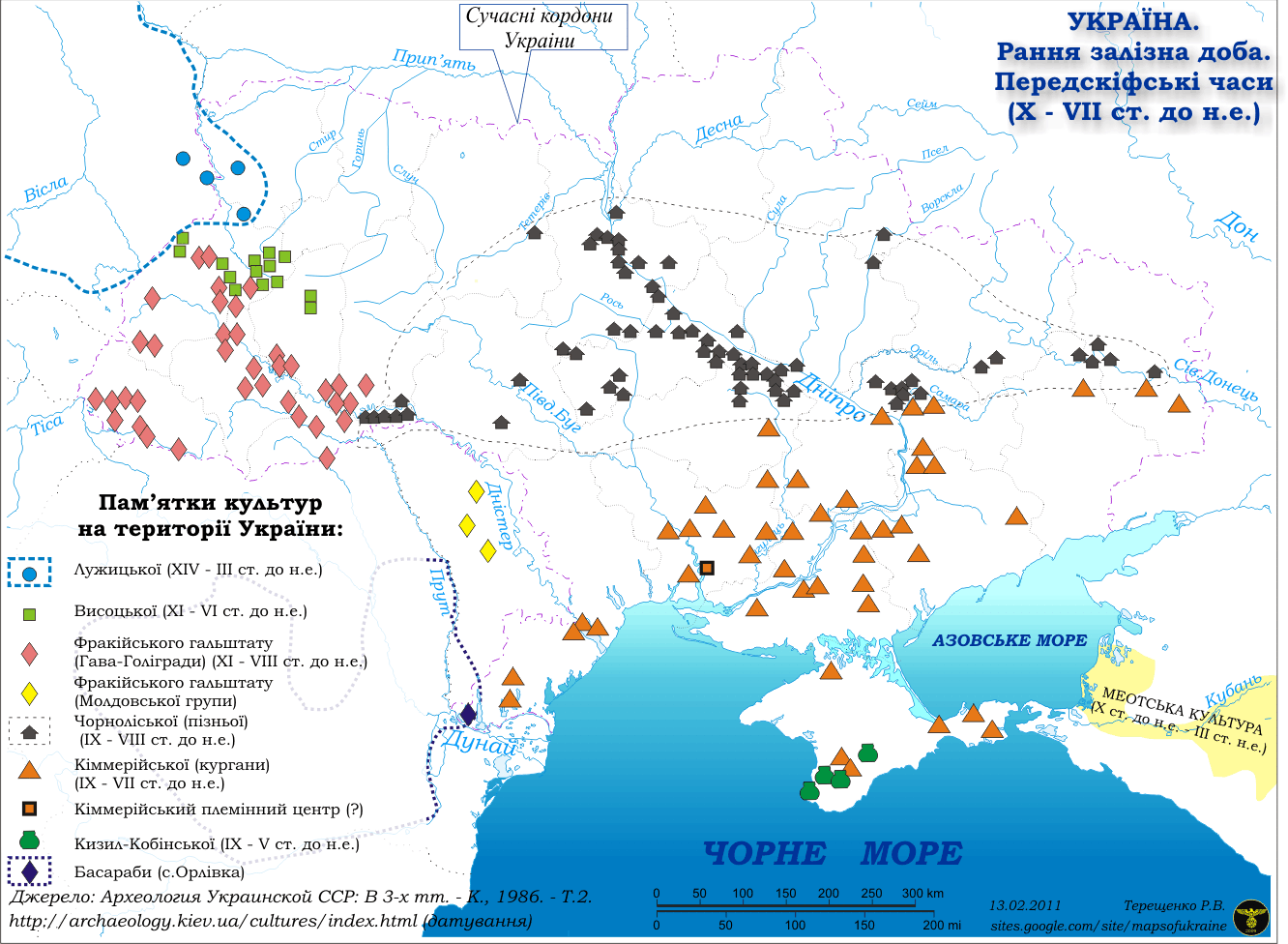 Early Iron Age in Ukraine. Cimmerians. (Start millennium BC.)